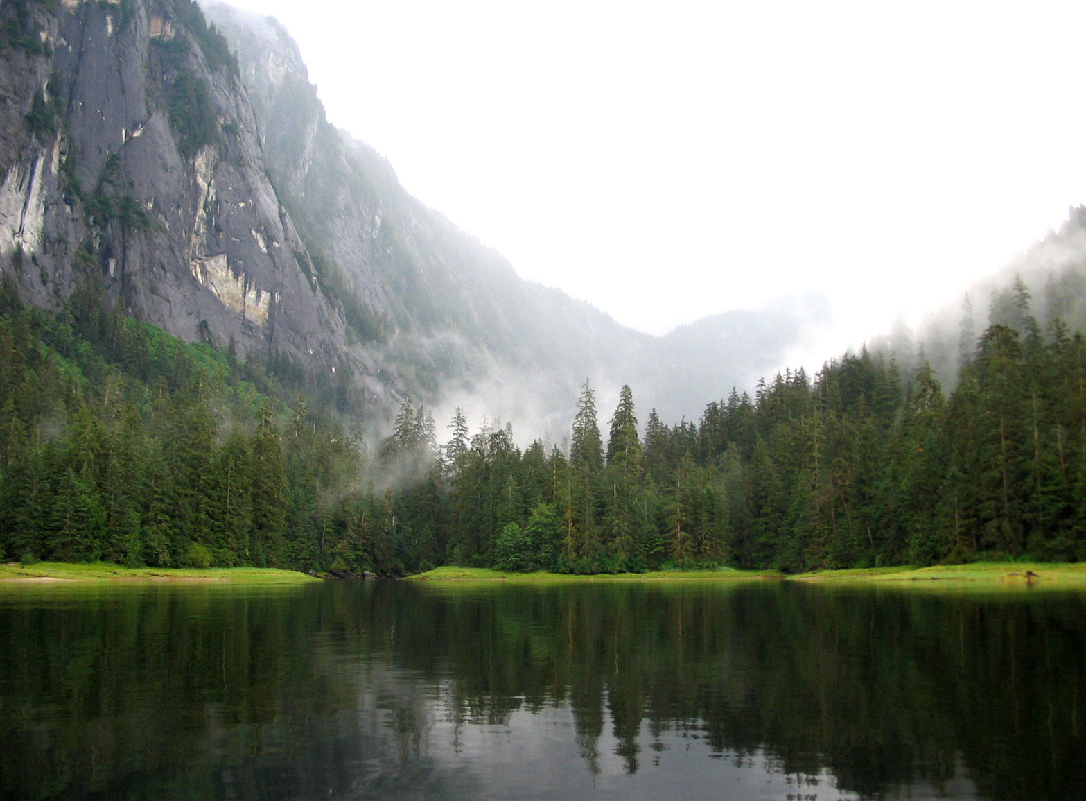 Picture taken by me (Zarxos) in the Misty Fjords National Monument, Alaska, July 2005. Mixed forest dominated by Picea sitchensis.